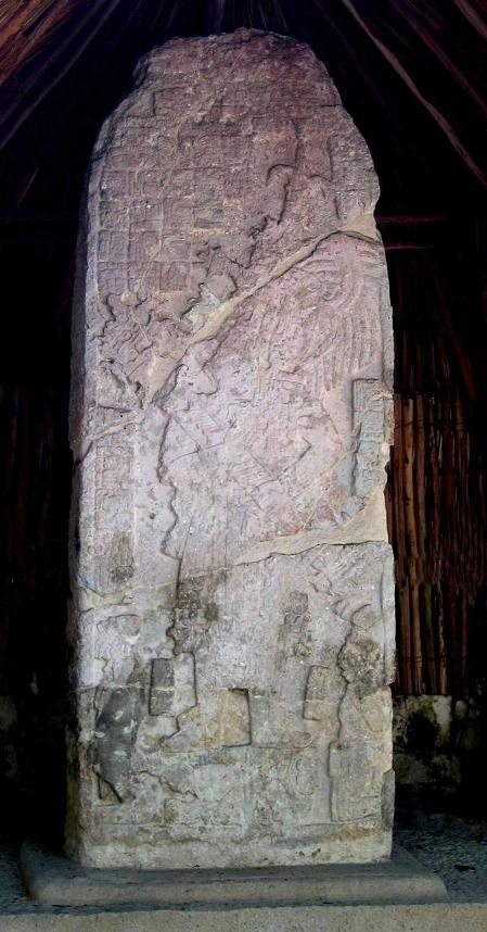 Stela - Cobá - México